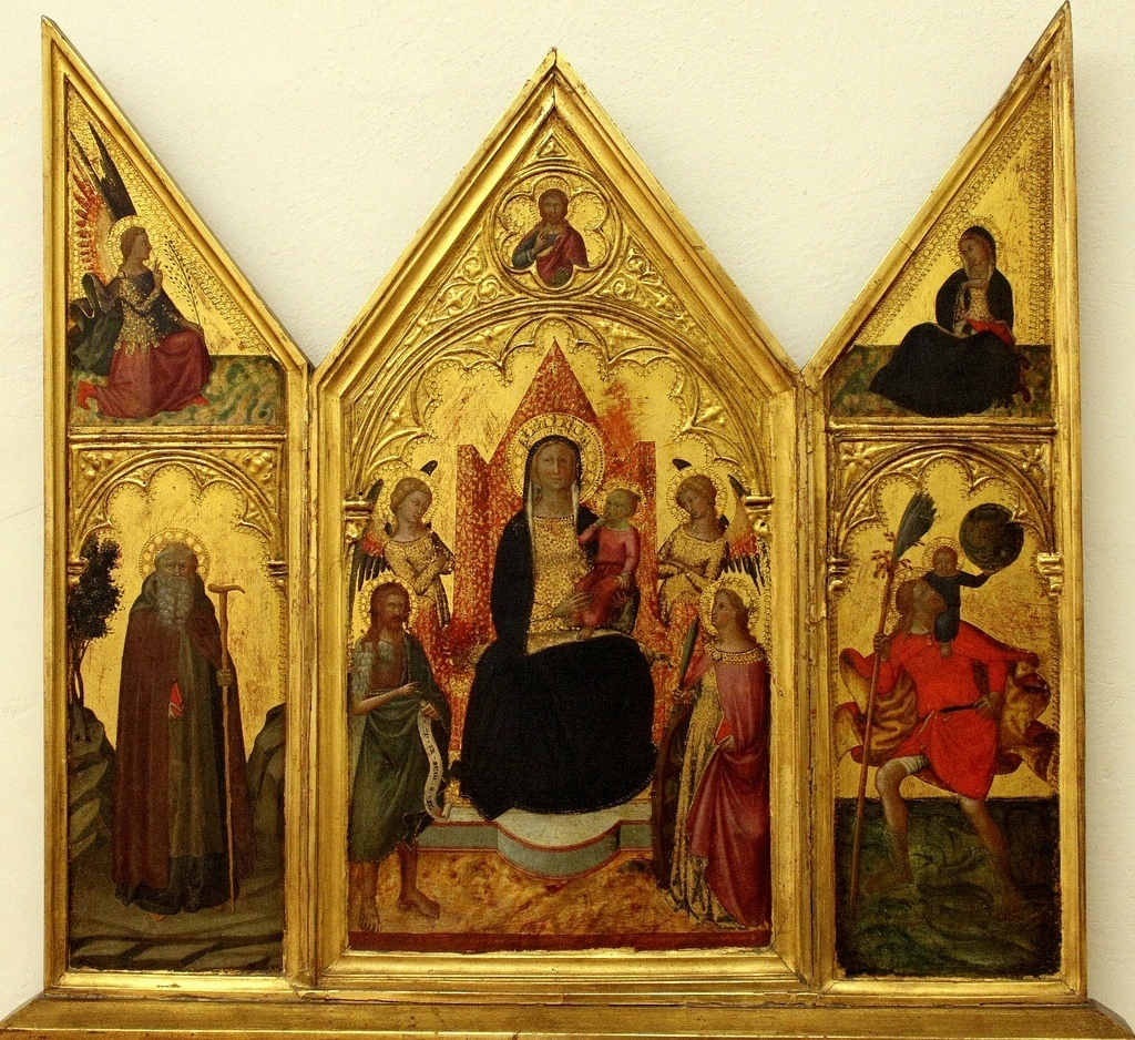 Niccolo_di_Buonaccorso.Triptych_of_the_Virgin_and_Chrild_enthroned._National_Gallery,_Prague